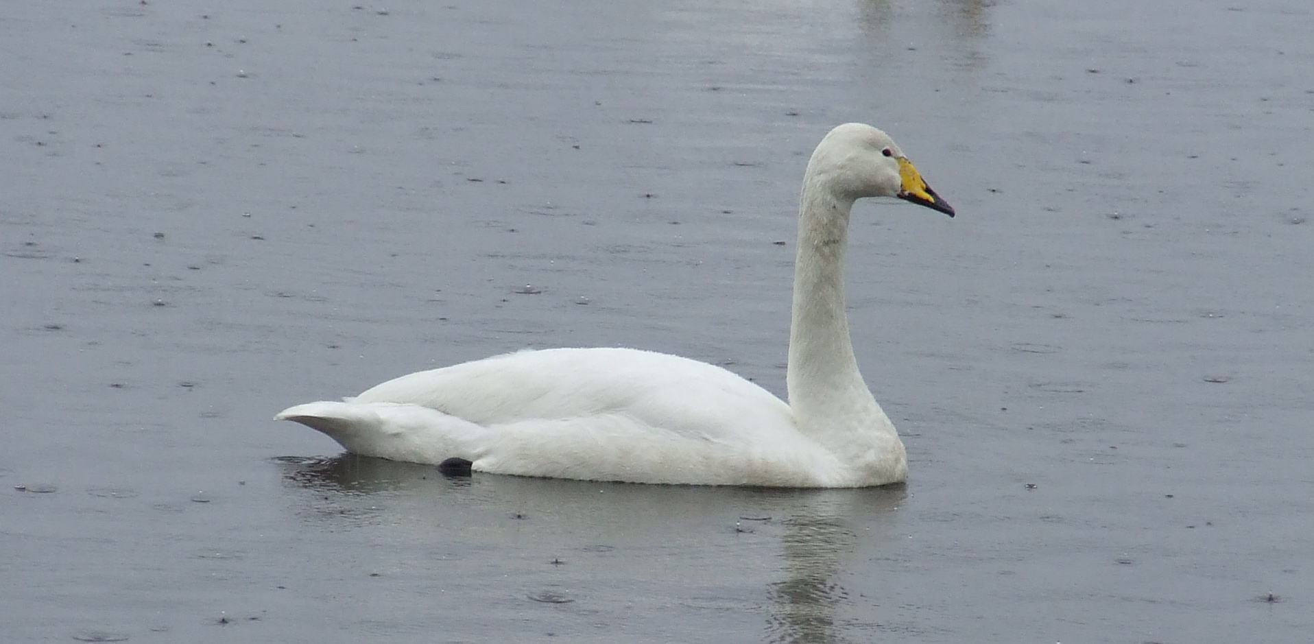 Picture of Whooper Swan, taken at Martin Mere, UK